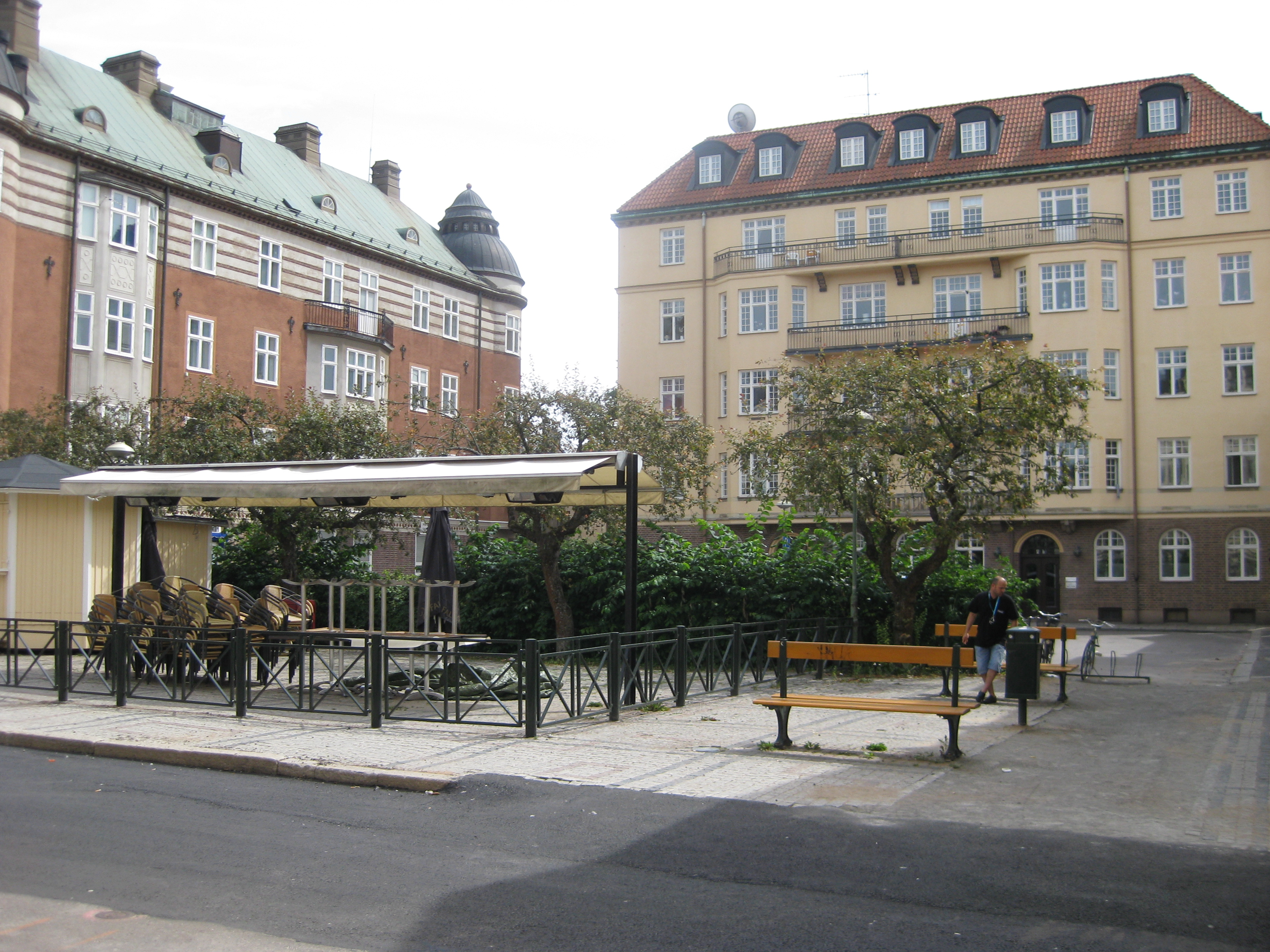 Hospitalstorget in Linköping, Sweden